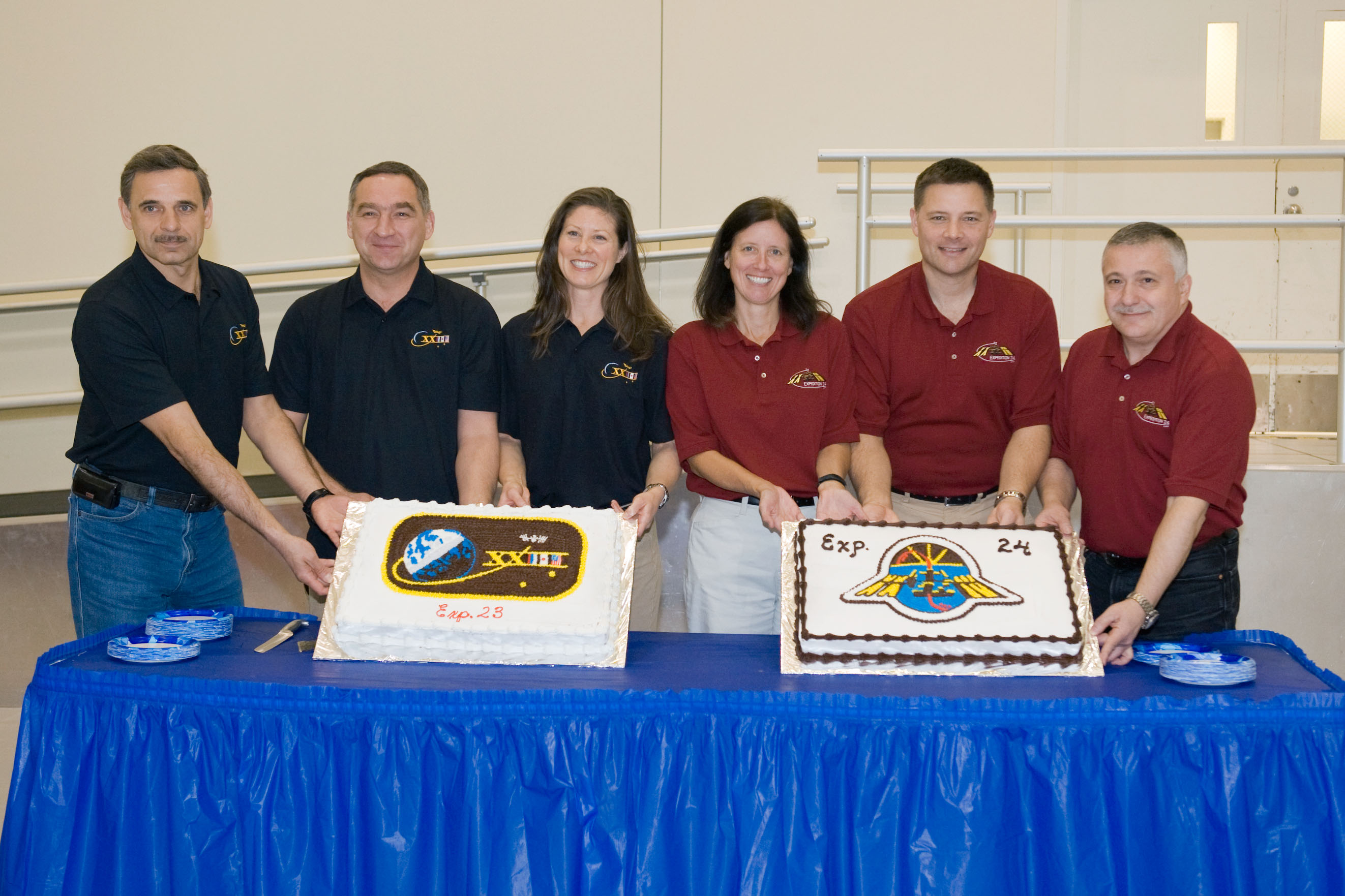 Expedition 24 crew members pose for a photo during a cake-cutting ceremony in the Jake Garn Simulation and Training Facility at NASA's Johnson Space Center. Pictured from the left are Russian cosmonauts Mikhail Kornienko, Expedition 24 flight engineer; and Alexander Skvortsov, Expedition 24 commander; NASA astronauts and Expedition 24 flight engineers Tracy Caldwell Dyson, Shannon Walker and Doug Wheelock, along with Russian cosmonaut Fyodor Yurchikhin, Expedition 24 flight engineer.